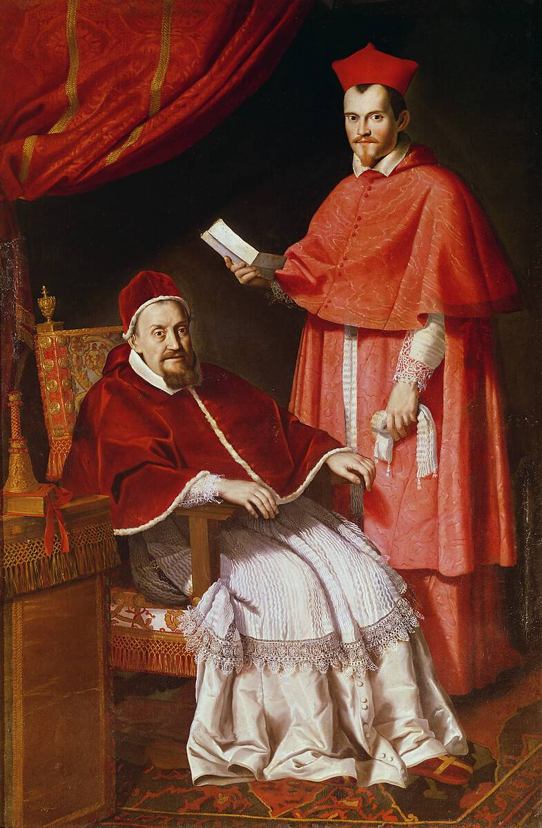 Ritratto del card. Ludovico Ludovisi, Dipinto, cm. 112x200,inv. MR 40930